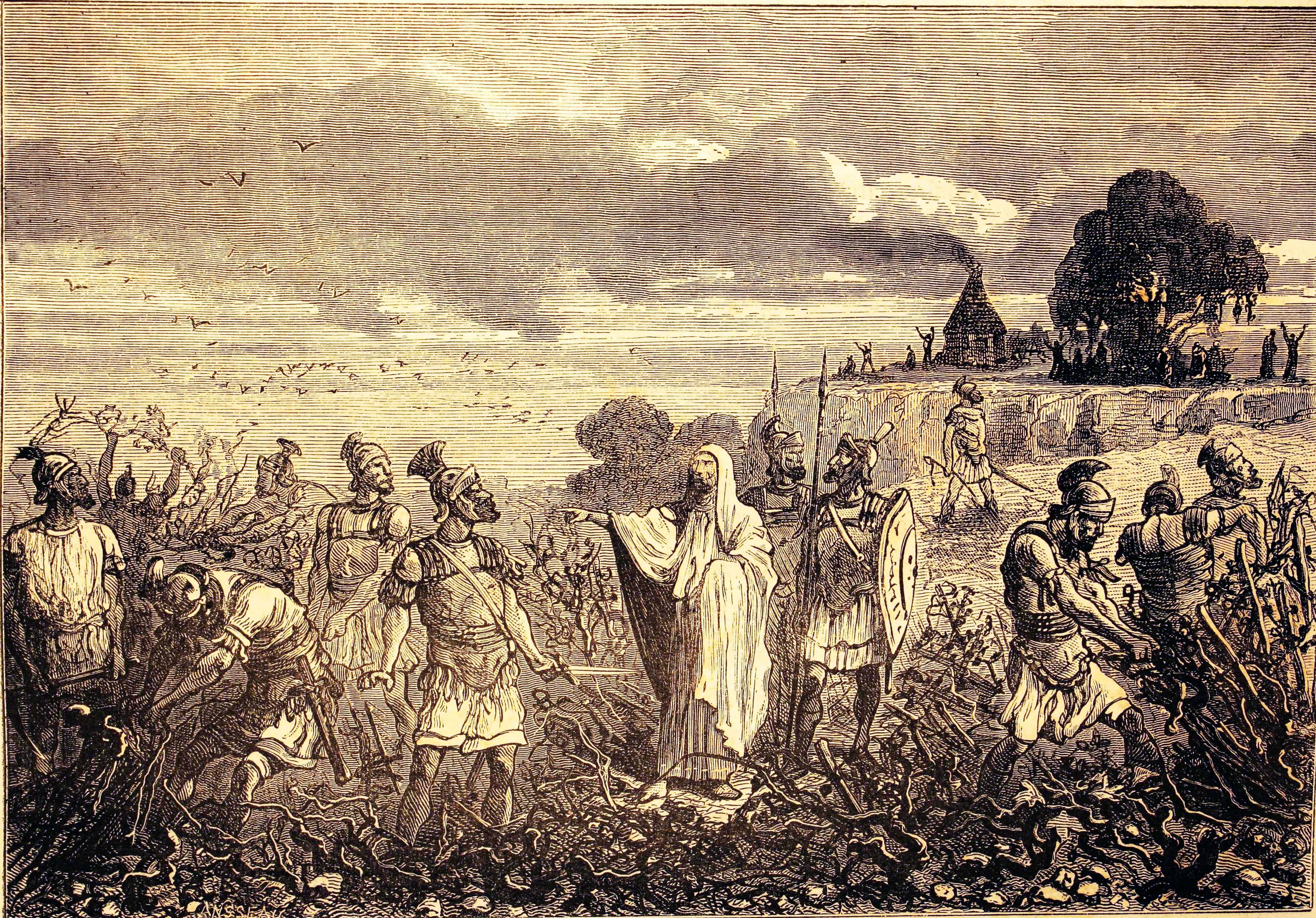 Uprooting vines by order of Domitian